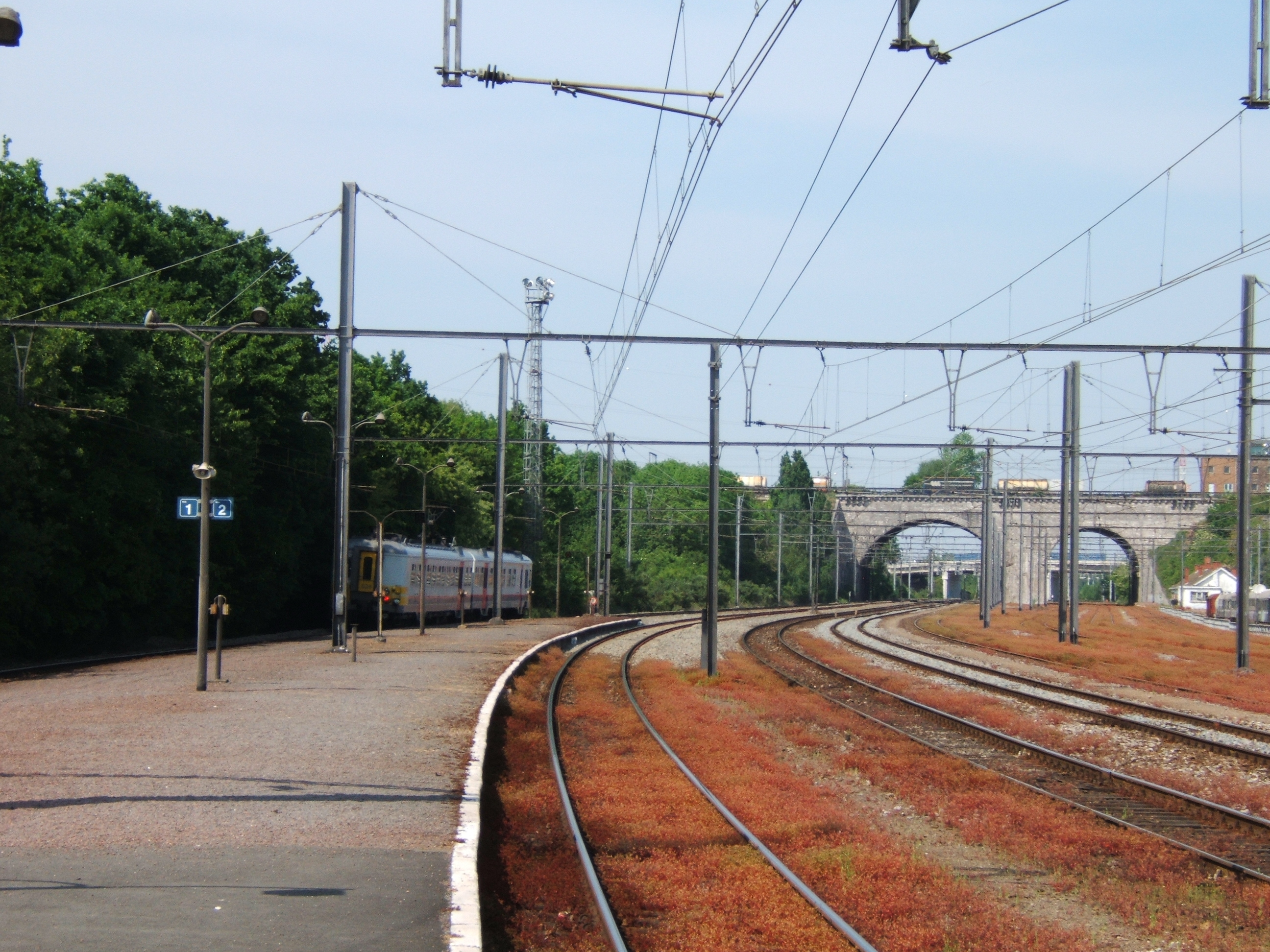 Local train leaving station Visé in the direction off Maastricht. In the distance there is a goods train crossing on the viaduct off the Tongeren - Montzen line.